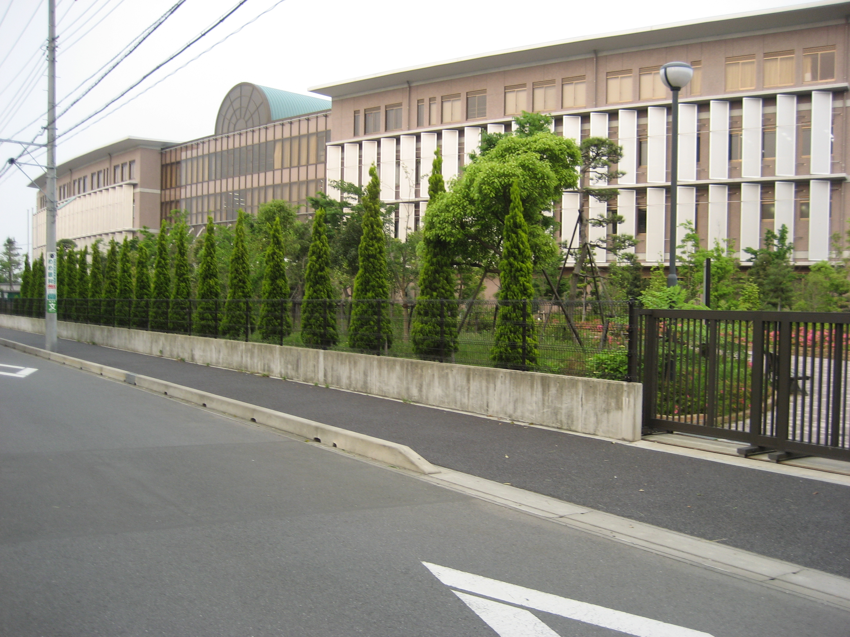 I took this photo of Ichikawa Gakuen on June 1st, 2006. I release all rights to the public domain.